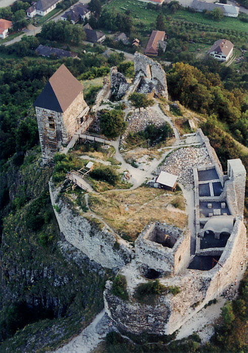 Palace - Füzér - Hungary - Europe